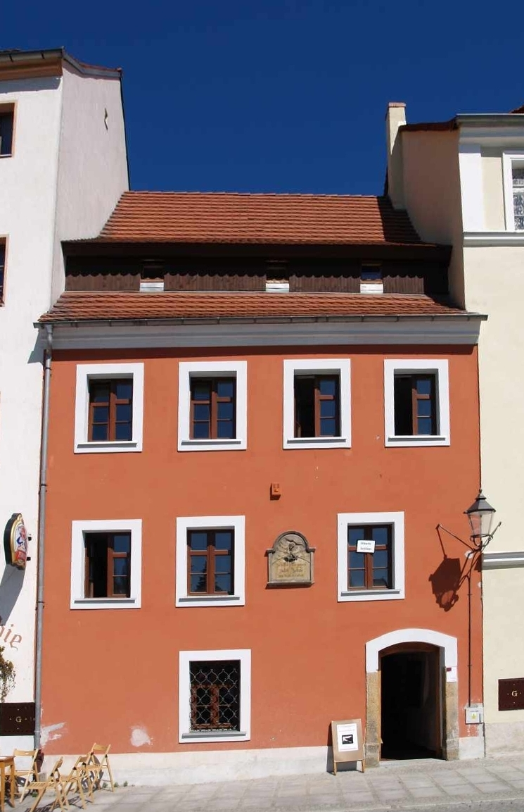 Jacob Böhme's House in Zgorzelec (Poland)